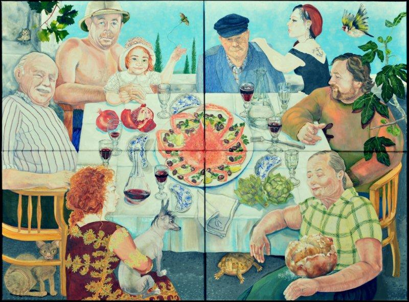 Maja Ettinger-Cecič "Luncheon" (Oil on canvas 4x80X60 cm) in Srednje Selo / Šolta / Croatia / Adriatic Sea.